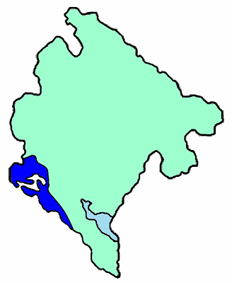 Created from this image: Image:Montenegro municipalities.png